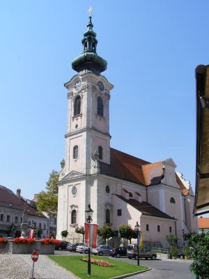 The parish church in Hainburg an der Donau (Austria)